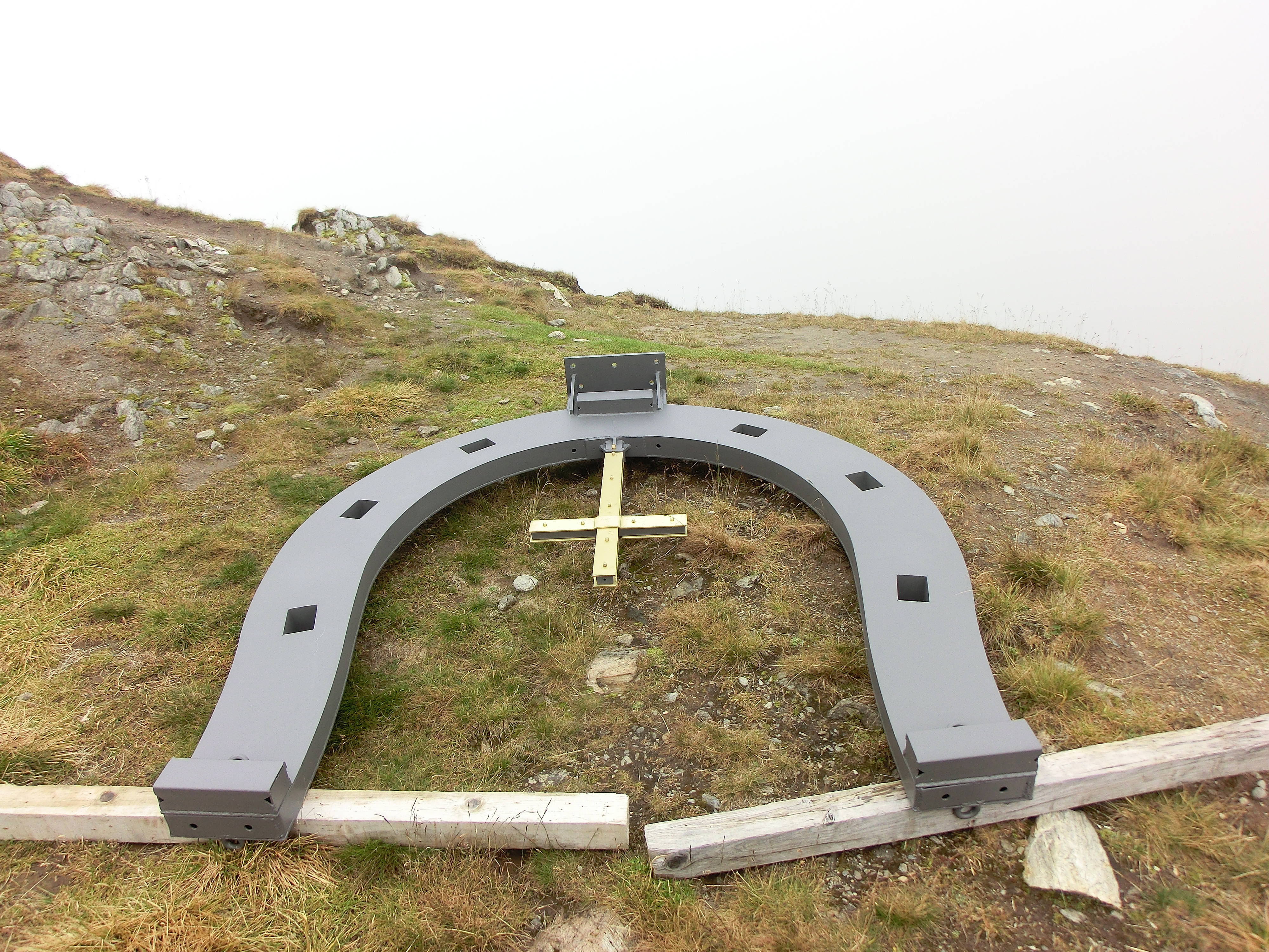 summit cross for Hohen Rosshuf at Lenjjöchlhütte before placement